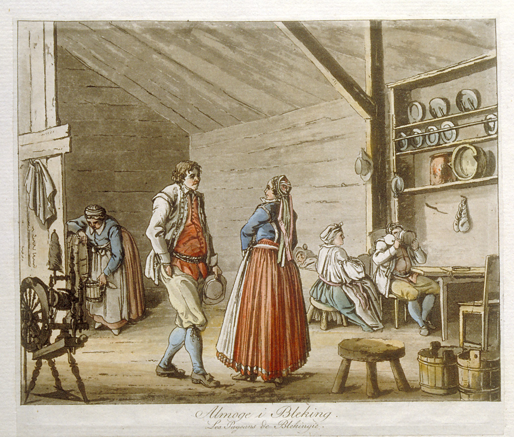 Country people in Blekinge. Aquatint over contour etching by Johan Fredrik Martin, made after original by Pehr Hilleström. From c. 1800. Allmoge i Blekinge. Akvatint över konturetsning av Johan Fredrik Martin, efter original av Pehr Hilleström. Från cirka 1800. Collection: The Rosenhane Collection, Library of Swedish National Heritage Board (Vitterhetsakademiens bibliotek ). Parish (socken): Uncertain Province (landskap): Blekinge Municipality (kommun): Uncertain County (län): Uncertain Photograph by: Jan Eve Olsson Date: 1995 Persistent URL: Read more about the photo database (in english)